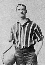 David Lloyd while with Brentford FC 1897/98